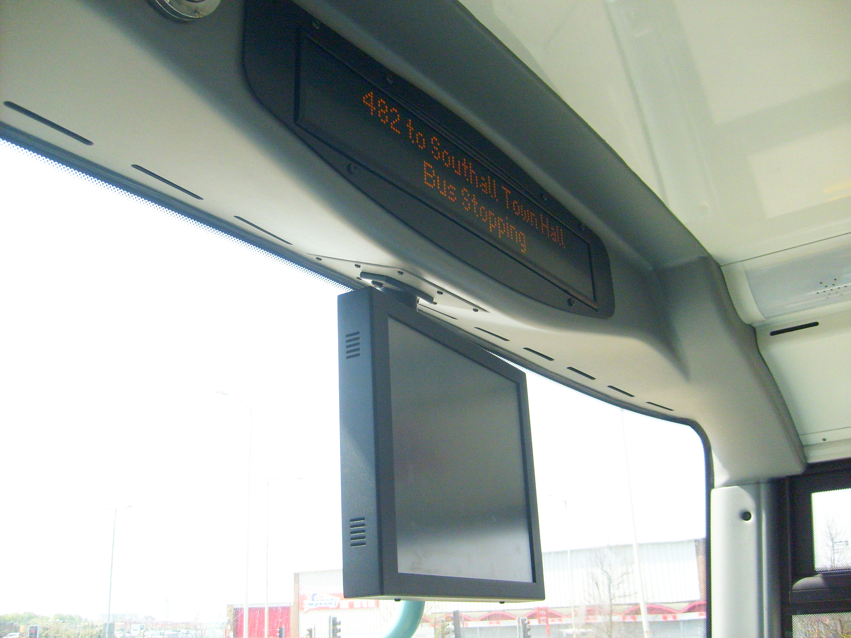 An iBus screen on a Scania OmniCity double decker opering on London buses route 482.